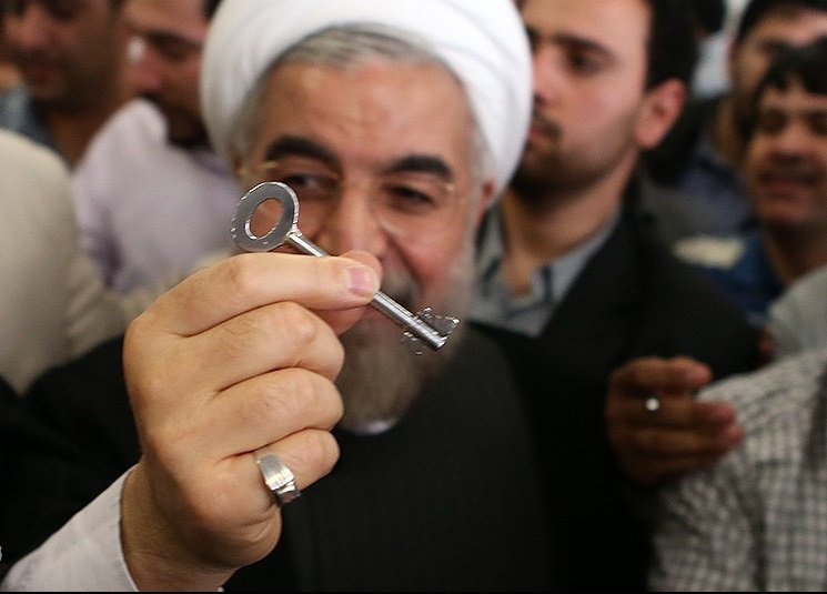 Presidential candidate, Hassan Rouhani press conference